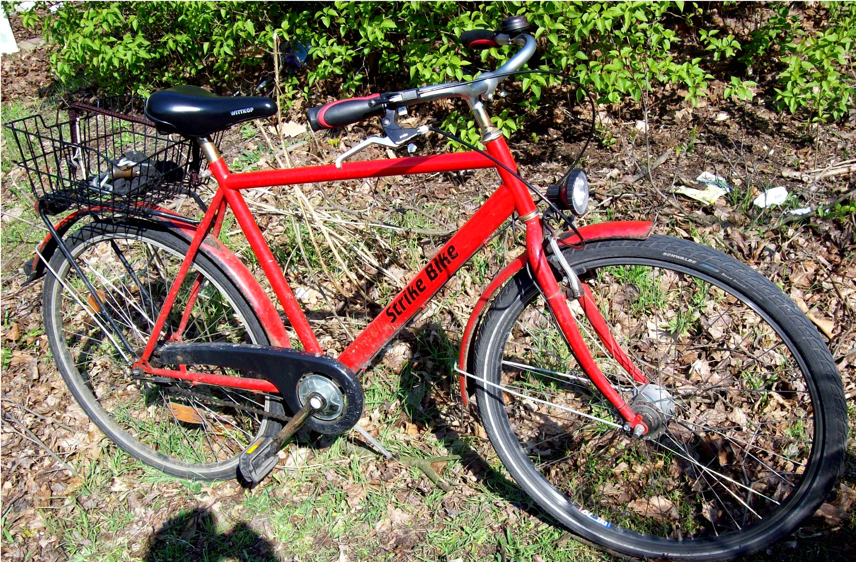 Strike Bike